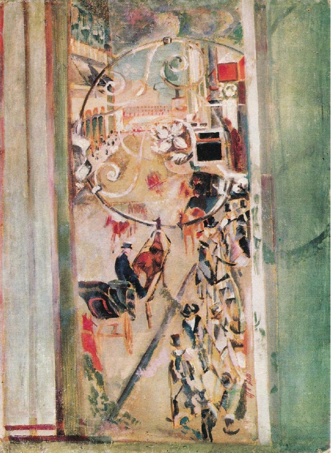 G. Yakulov. Tverskaya Street Oil on cardboard. 110 × 81,5 cm The painting is located in the National Gallery of Armenia.